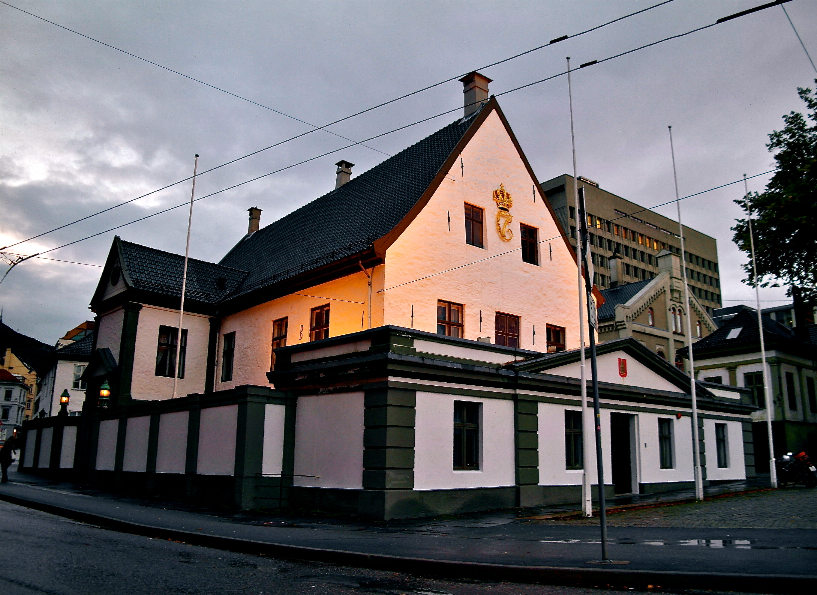 Old town hall in Bergen, Norway